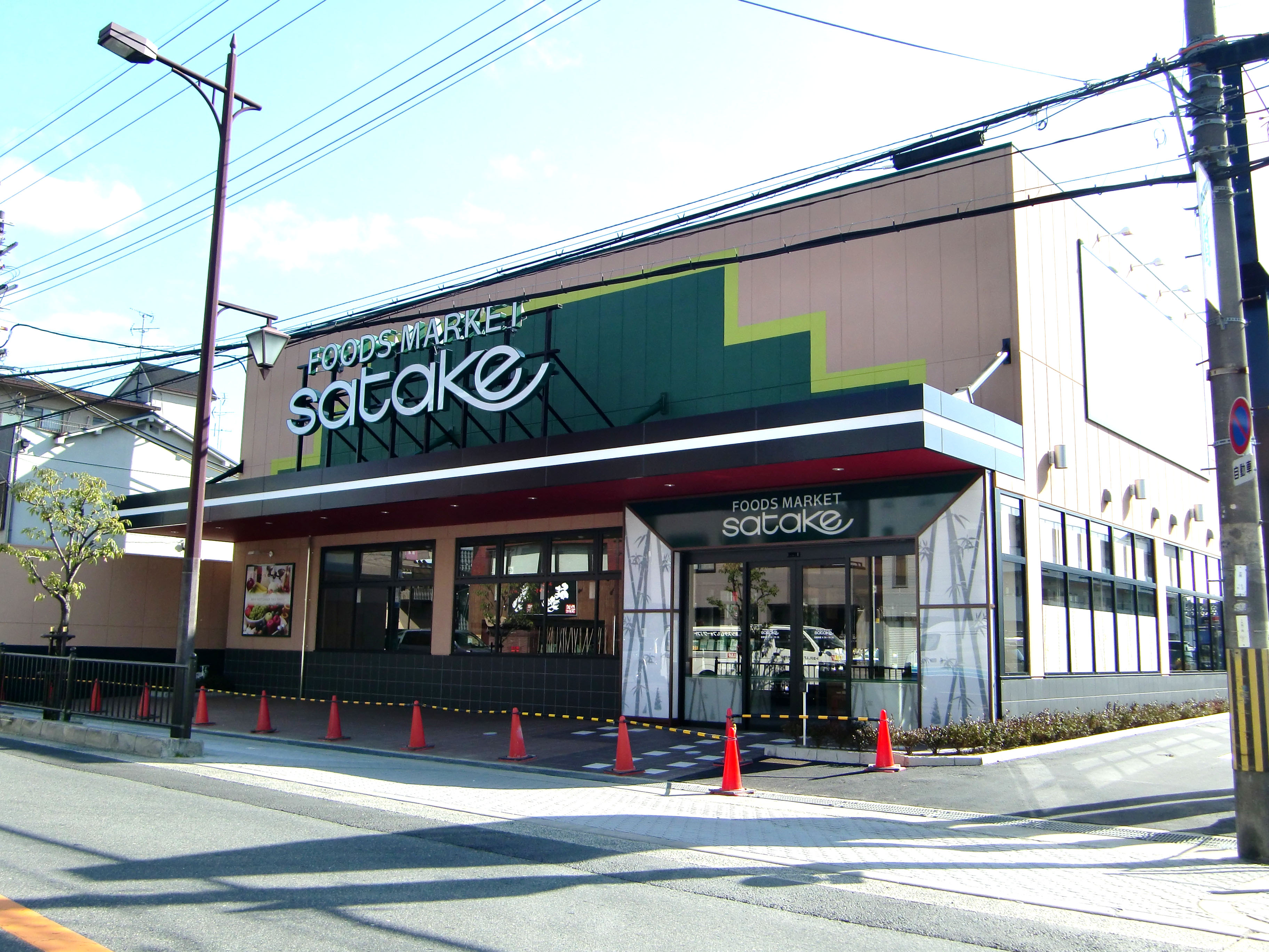 Satake Oike,1-1-35 Oike Ibaraki-City Osaka JAPAN.